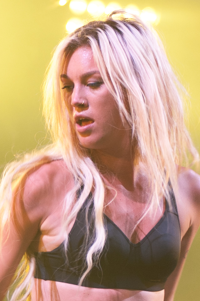 Elliphant performing at Flow Festival in Helsinki, August 14, 2015